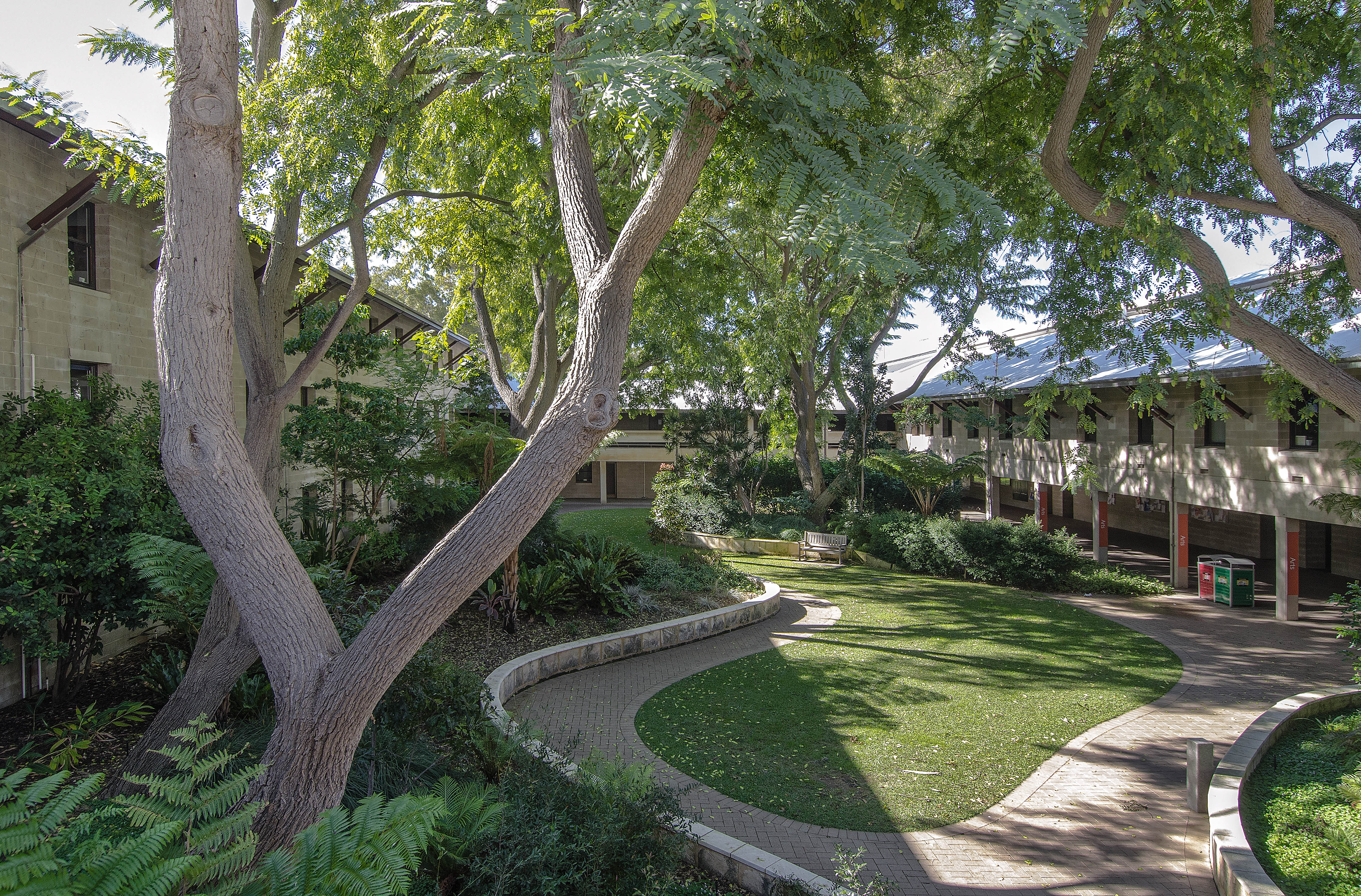 Bower Court, a courtyard in the Social Sciences Building at Murdoch University